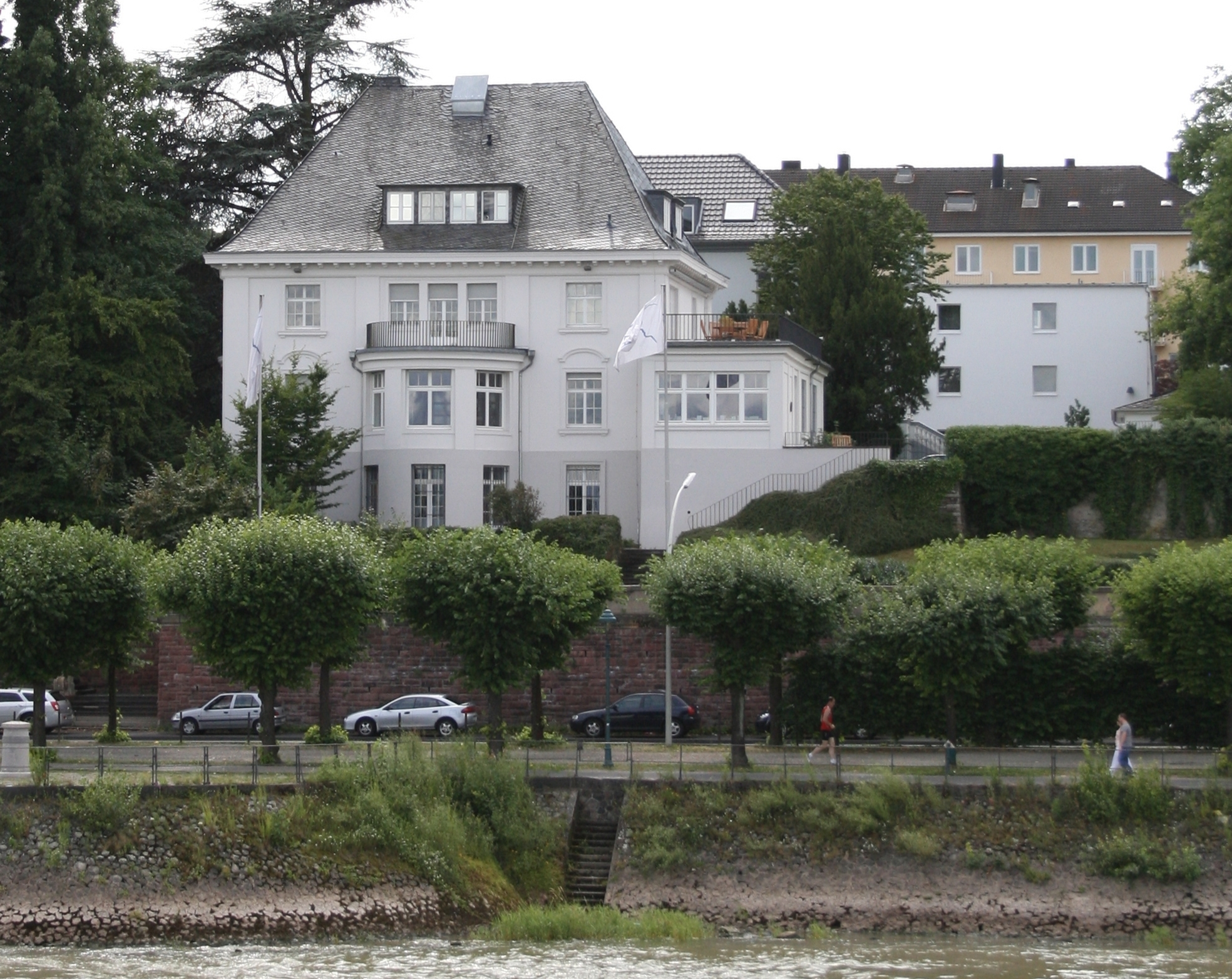 Headquarters of the IZA Institute of Labor Economics. The building was previously used by the Free Hanseatic City of Bremen.